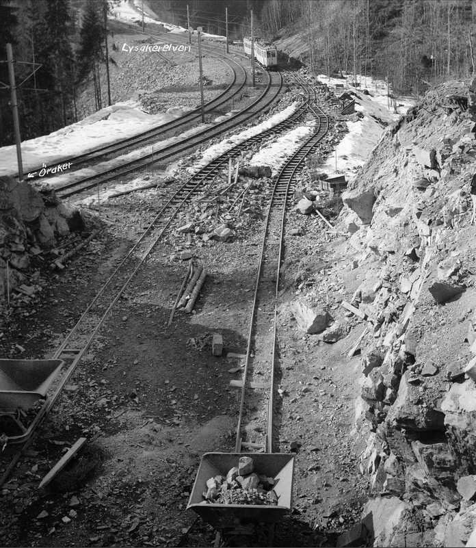 Bærumsbanen Class A tram near Jar and Sørbyhaugen during the construction of the underground connection to the Kolsås Line.